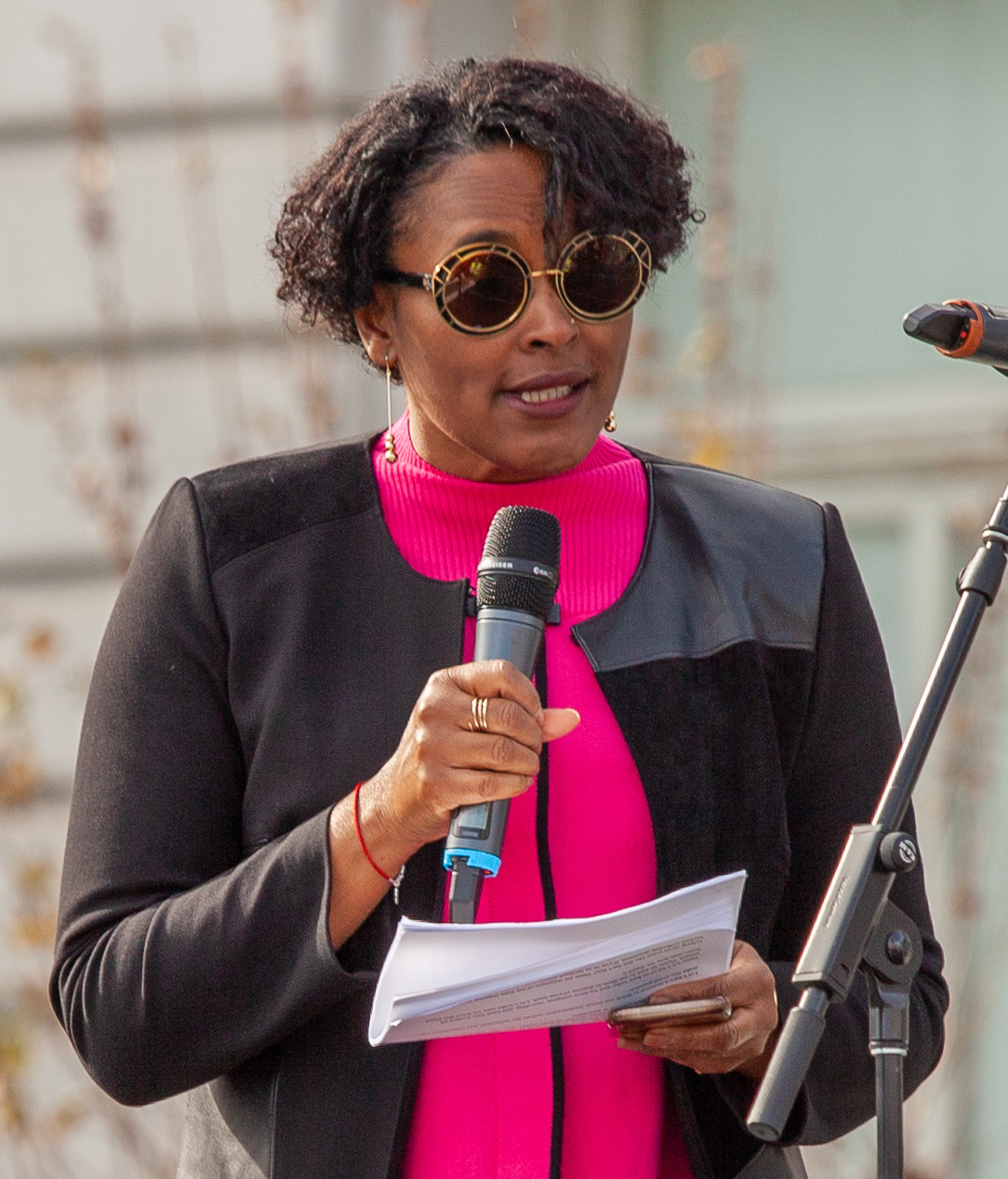 Kimberly Ellis speaks at the 2020 San Francisco Women's March.